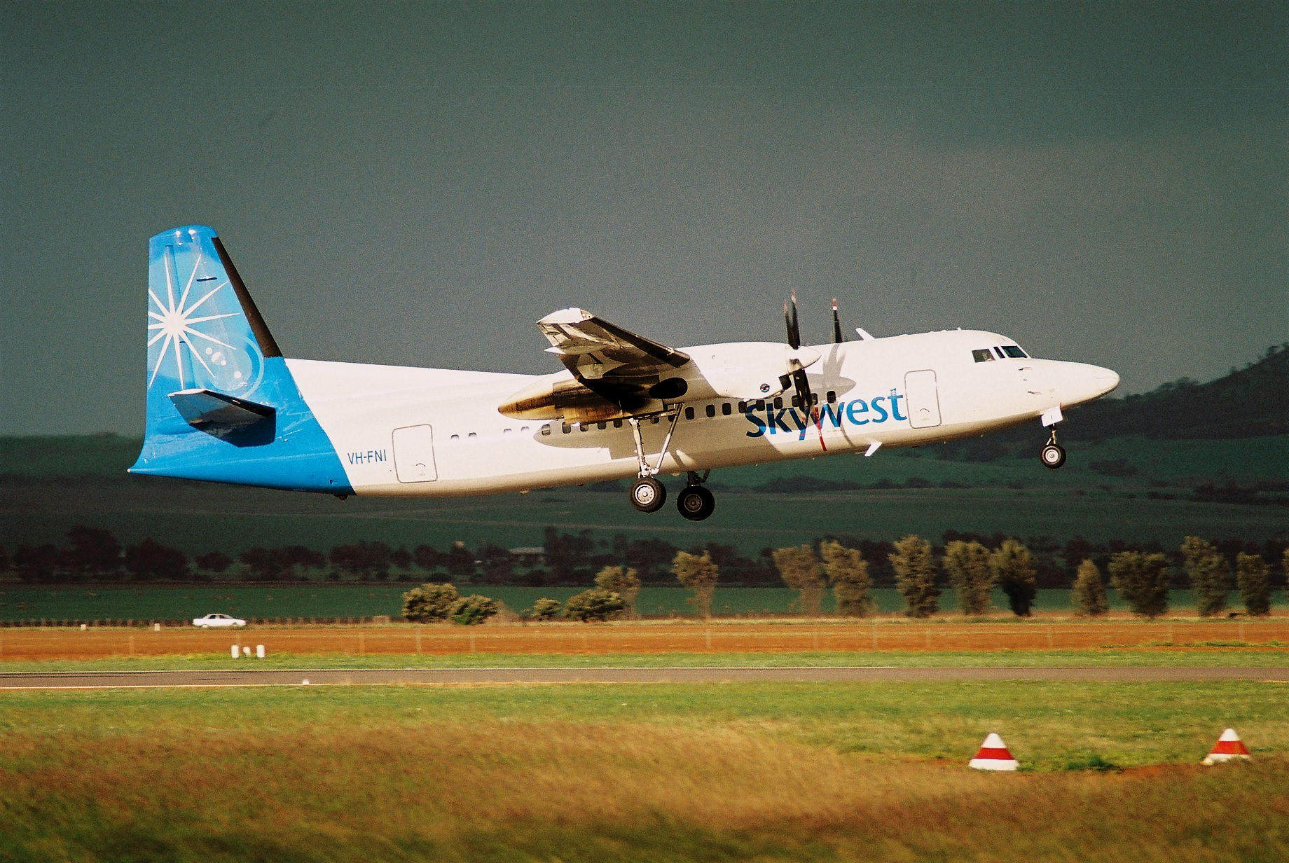 A Skywest Airlines, VH-FNI, Fokker 50 takes off from Geraldton Airport in June 2005.